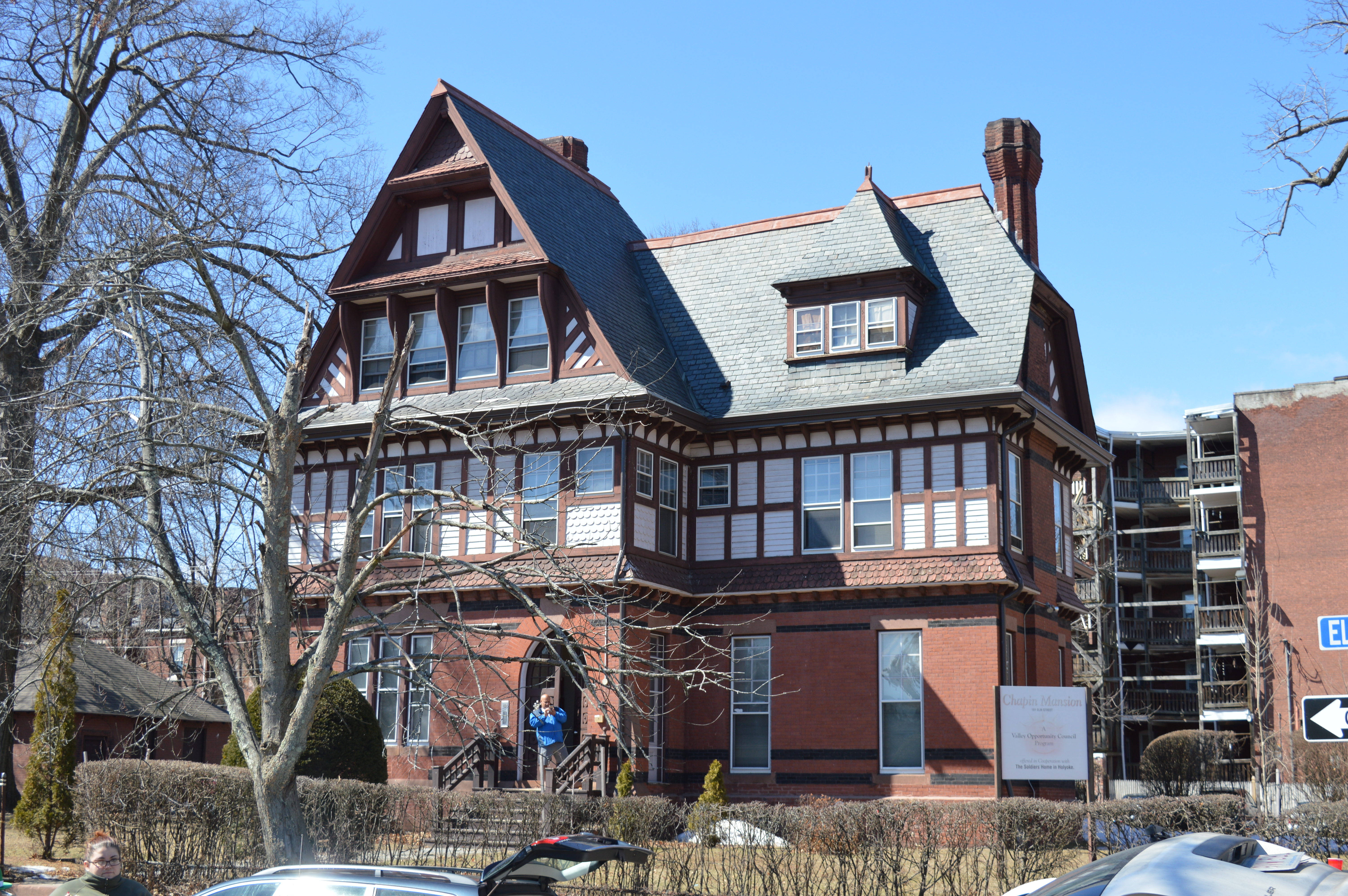 The Chapin Mansion in Holyoke, Massachusetts, now used by the Valley Opportunity Council in tandem with the Soldiers' Home in Holyoke to house previously-homeless veterans, during the 19th century it was briefly home to Clemens Herschel among others.